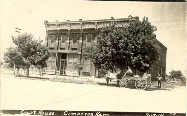 The old Gray County Courthouse in Cimarron, Kansas, on July 19, 1914.